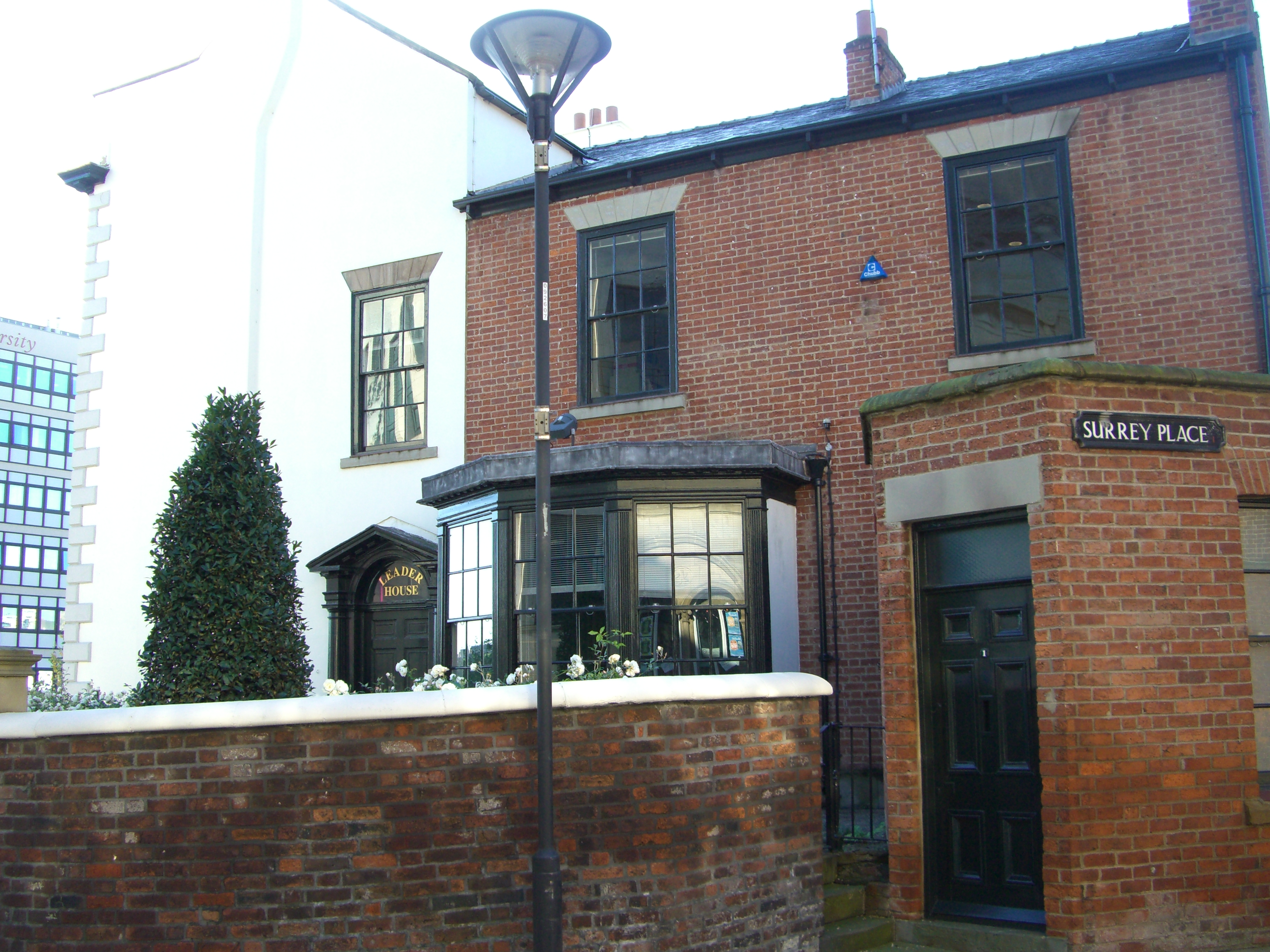 The north side of Leader House in Sheffield, England. This Grade II Listed building dates from 1770. The main Doric entrance and bay window are shown.